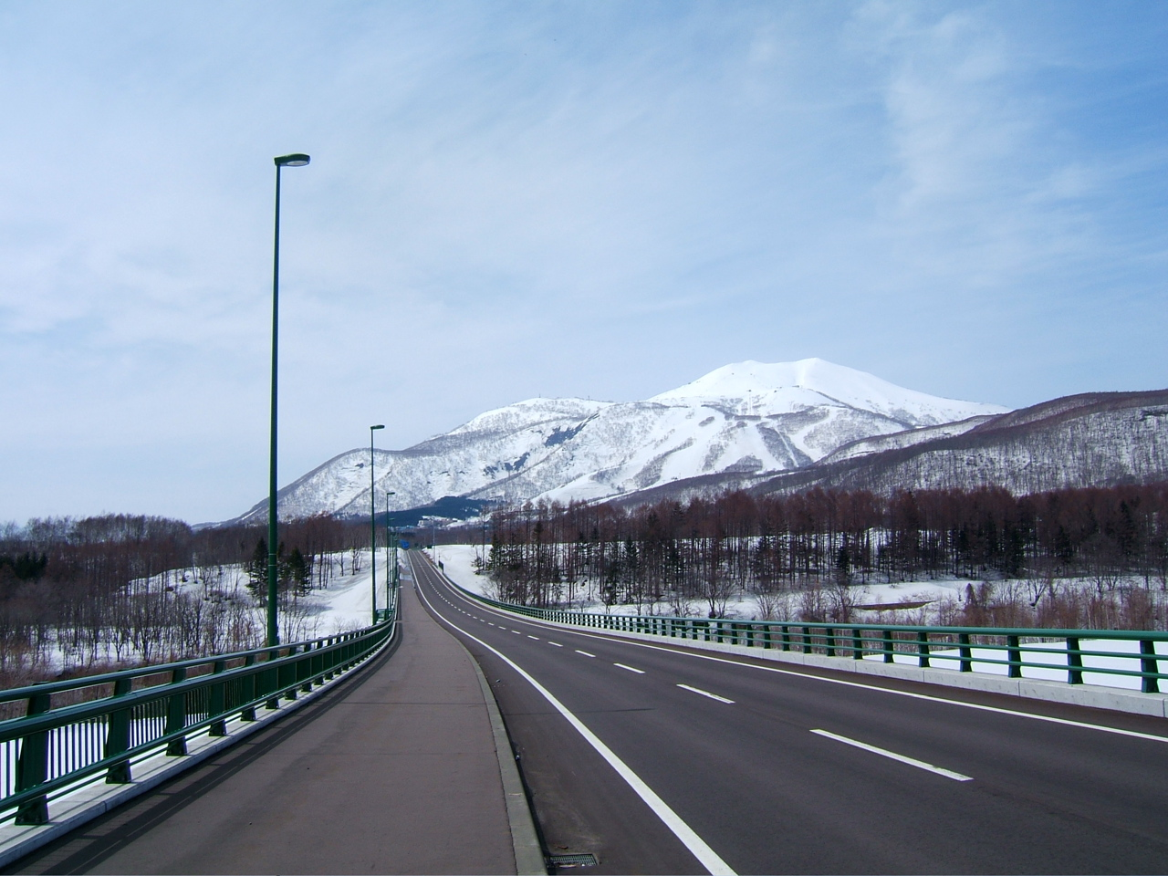 Mt. Niseko Annupuri seen from the East. Taken on the St. Moritz memorial bridge. Niseko Mt. Resort Grand Hirafu on Niseko Annupuri. In Kutchan Town, Hokkaido, Japan. Photo by Nobuo Ogasawara.